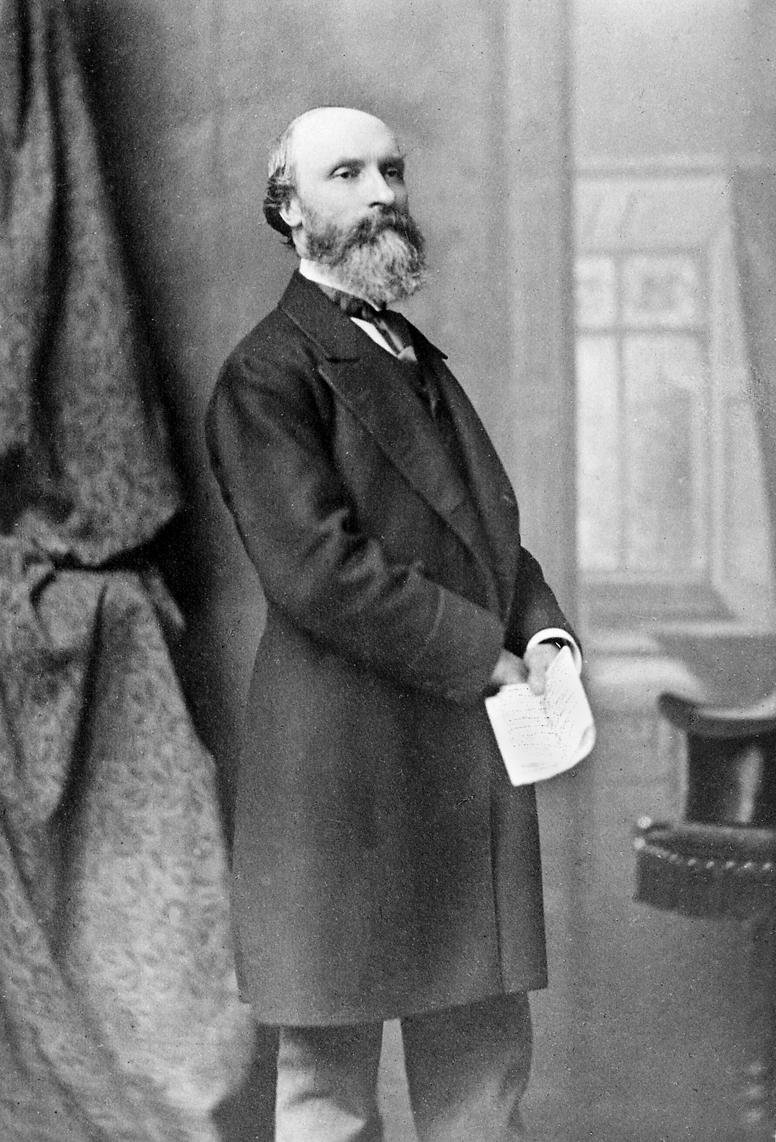 Fitzpatrick, T. (Thomas), 1831?-1900. General Collections Keywords: Thomas Fitzpatrick